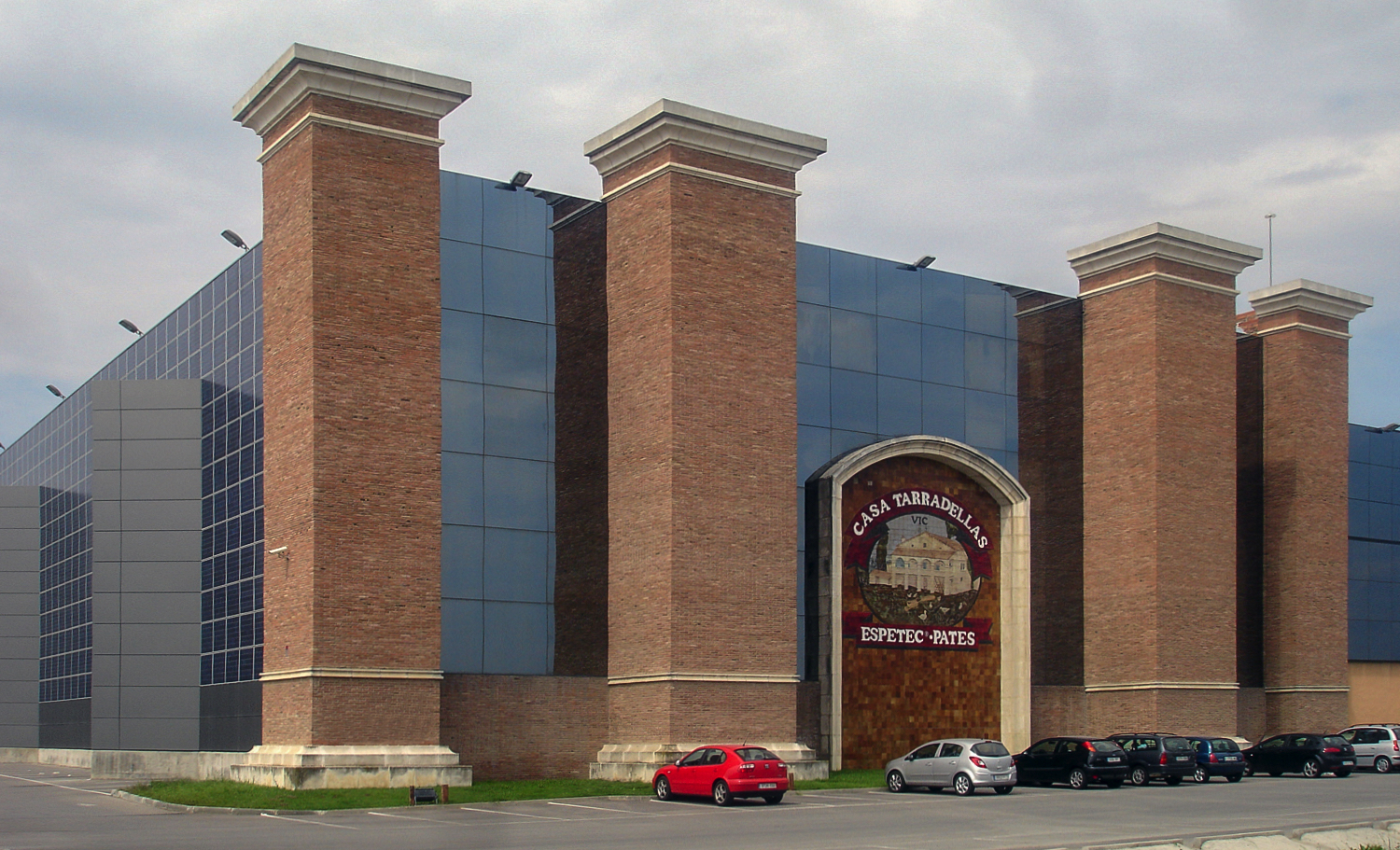 Casa Tarradellas (Gurb, Osona, Catalonia, Spain) - Headquarter